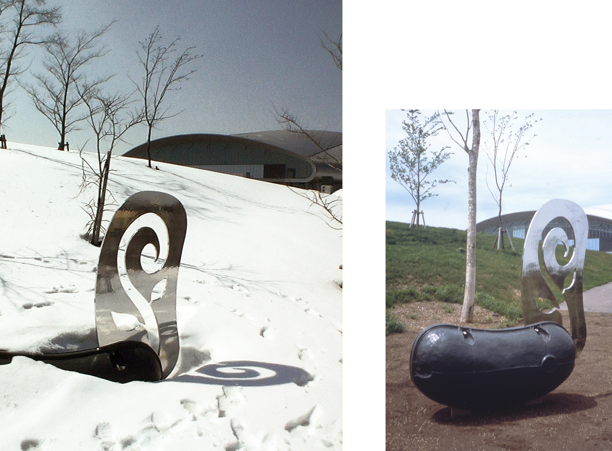 Cast iron and stainless steel sculpture ,180 x 230 x 50 cm / 72 x 90 x 20 inches, Sapporo Dome, Hokkaido. Image courtesy: © Oscar Oiwa Studio.NY.